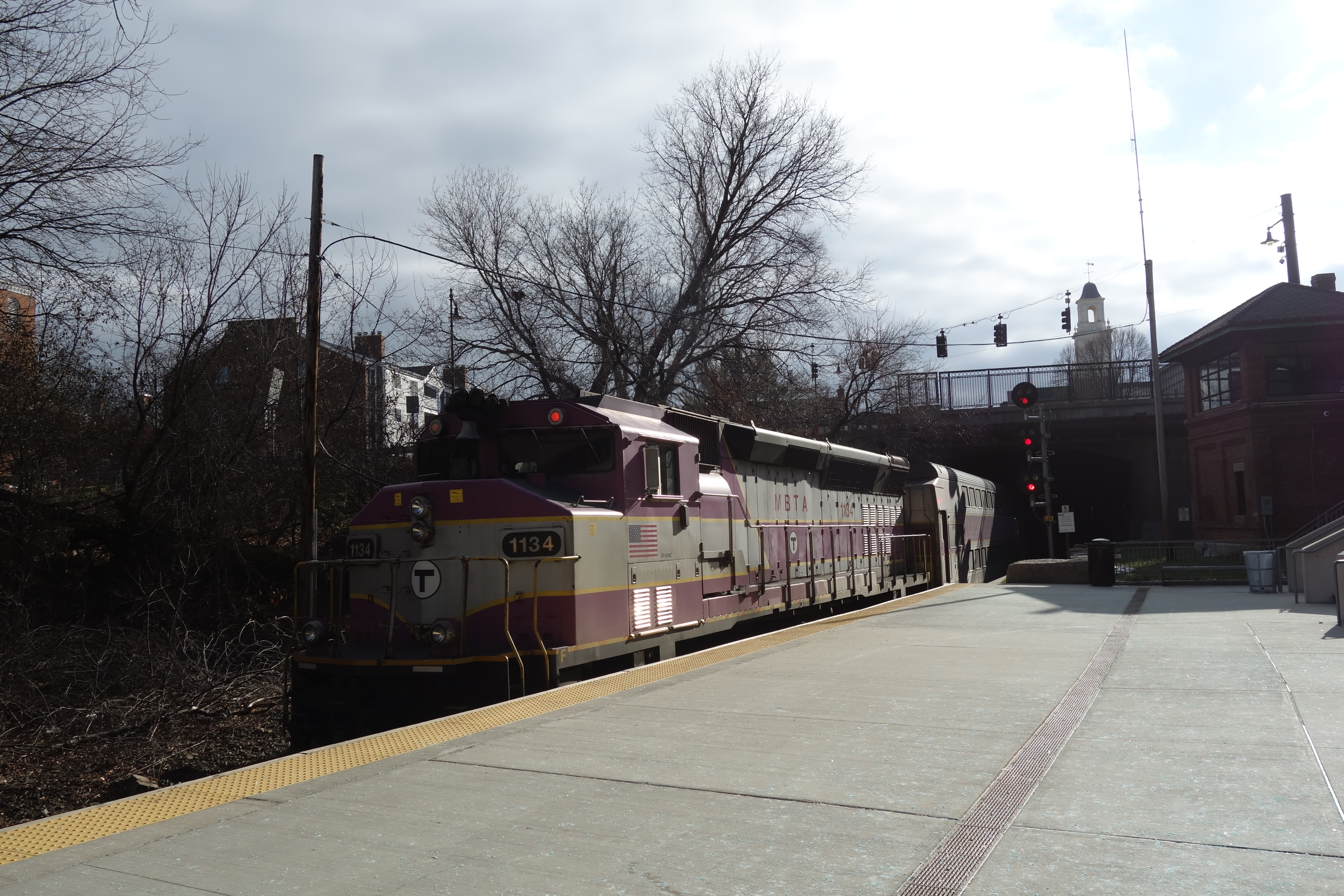 A North Station (Boston)-bound MBTA train leaving the south end of the rail platform of the Salem MBTA rail station, at Washington Street and Bridge Street in downtown Salem, Massachusetts. Note that this train is traveling "backwards", with a coach leading the front end, and a locomotive pushing the rear end.